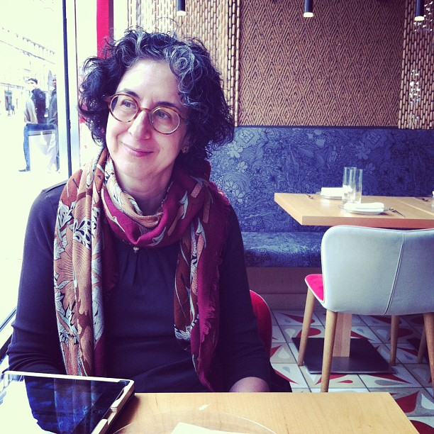 Ellen Kushner at a cafe, 2013.